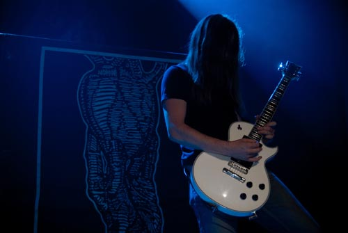 Bill Steer of Carcass, live at Hole In The Sky, Bergen Metal Fest 2007